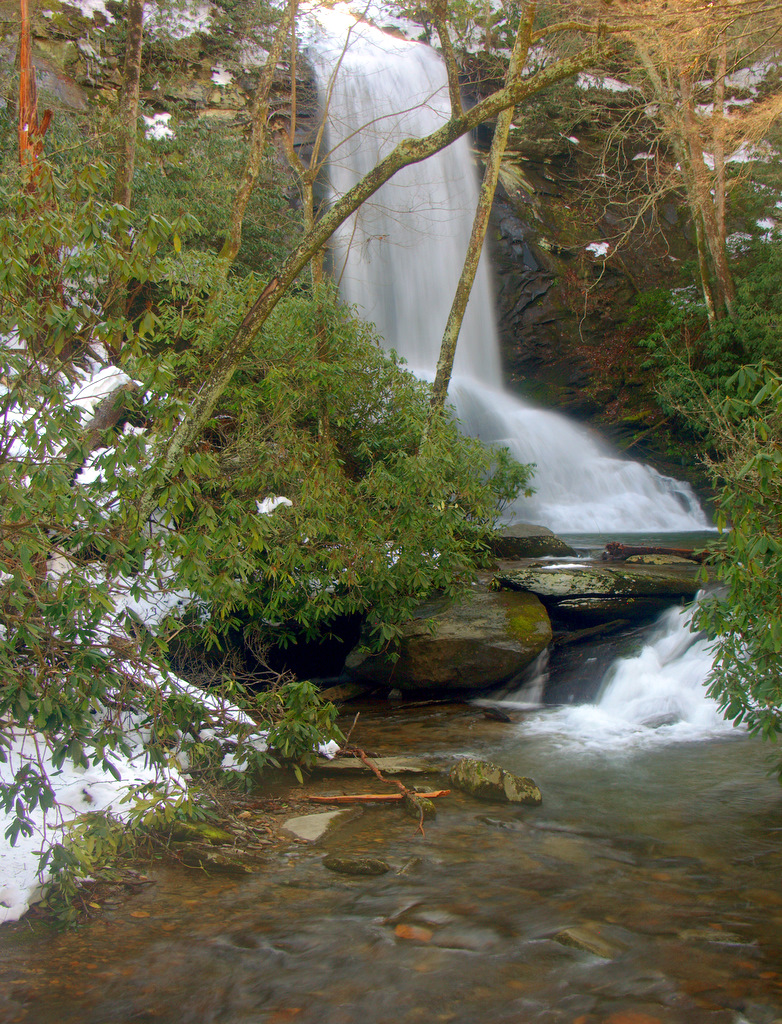 Upper Catawba Falls, near Old Fort, McDowell County, NC.